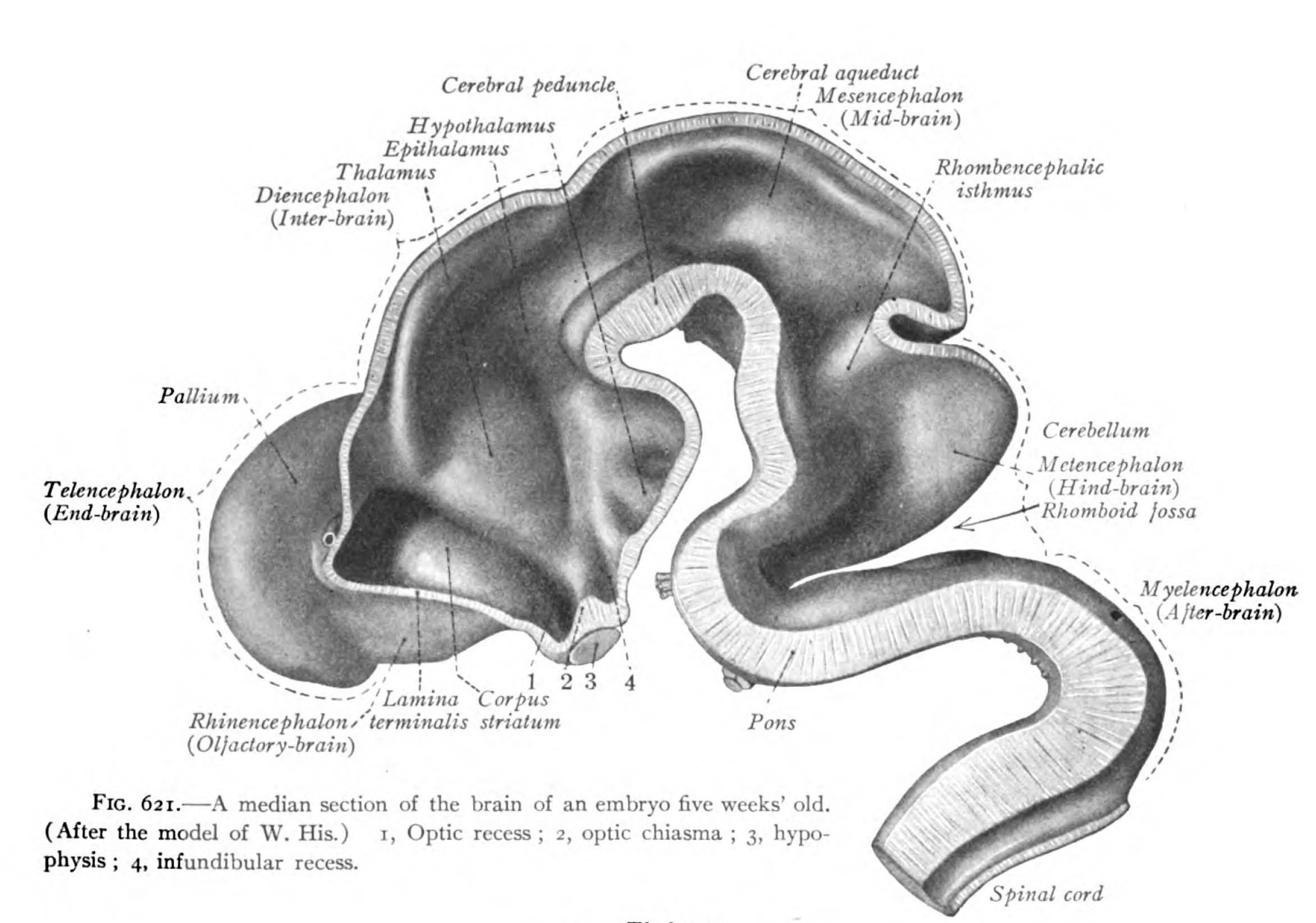 An anatomical illustration from Sobotta's Human Anatomy 1908